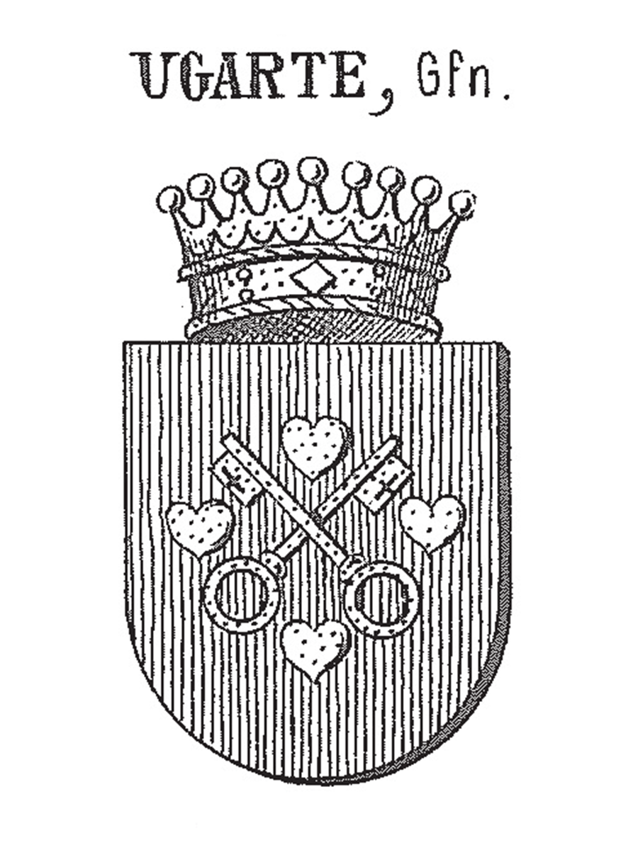 Coat of arms of Ugarte (Counts)